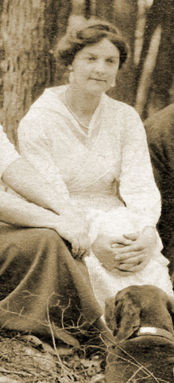 Group of artists seated on the ground, among the trees. Identification on verso (handwritten): Left to right - Paul Haviland, Abraham Walkowitz, Katharine N. Rhoades, Mrs. Alfred Stieglitz, Agnes Ernst (Mrs. Eugene Meyer), Alfred Stieglitz, J.B. Kerfoot, John, Marin. Property of Walkowitz family. Published in: Archives of American Art Journal v. 6, no. 2, p. 15; v. 40, no. 3-4, p. 36.